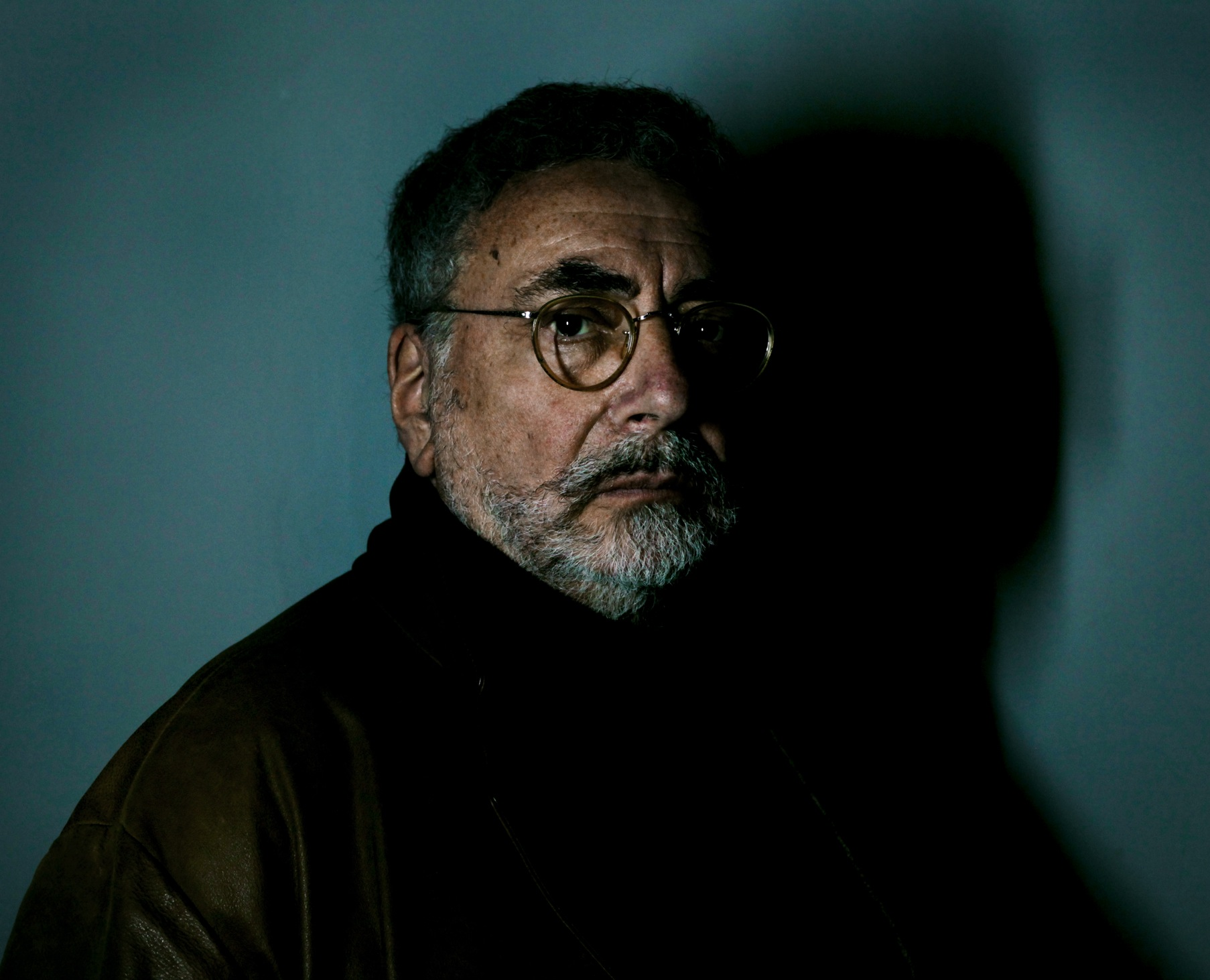 François Riviere